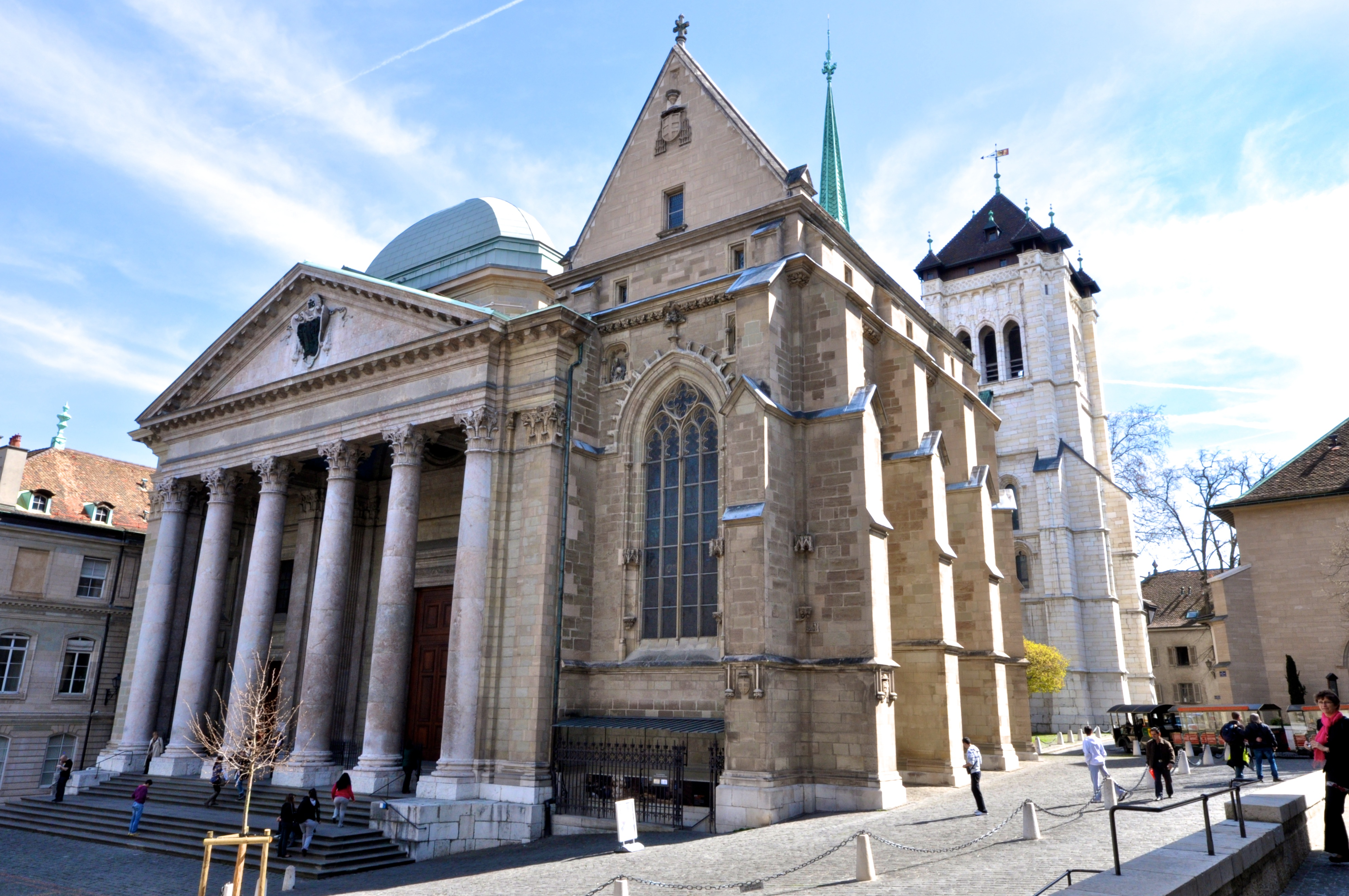 Saint Peters Cathedral in Geneva